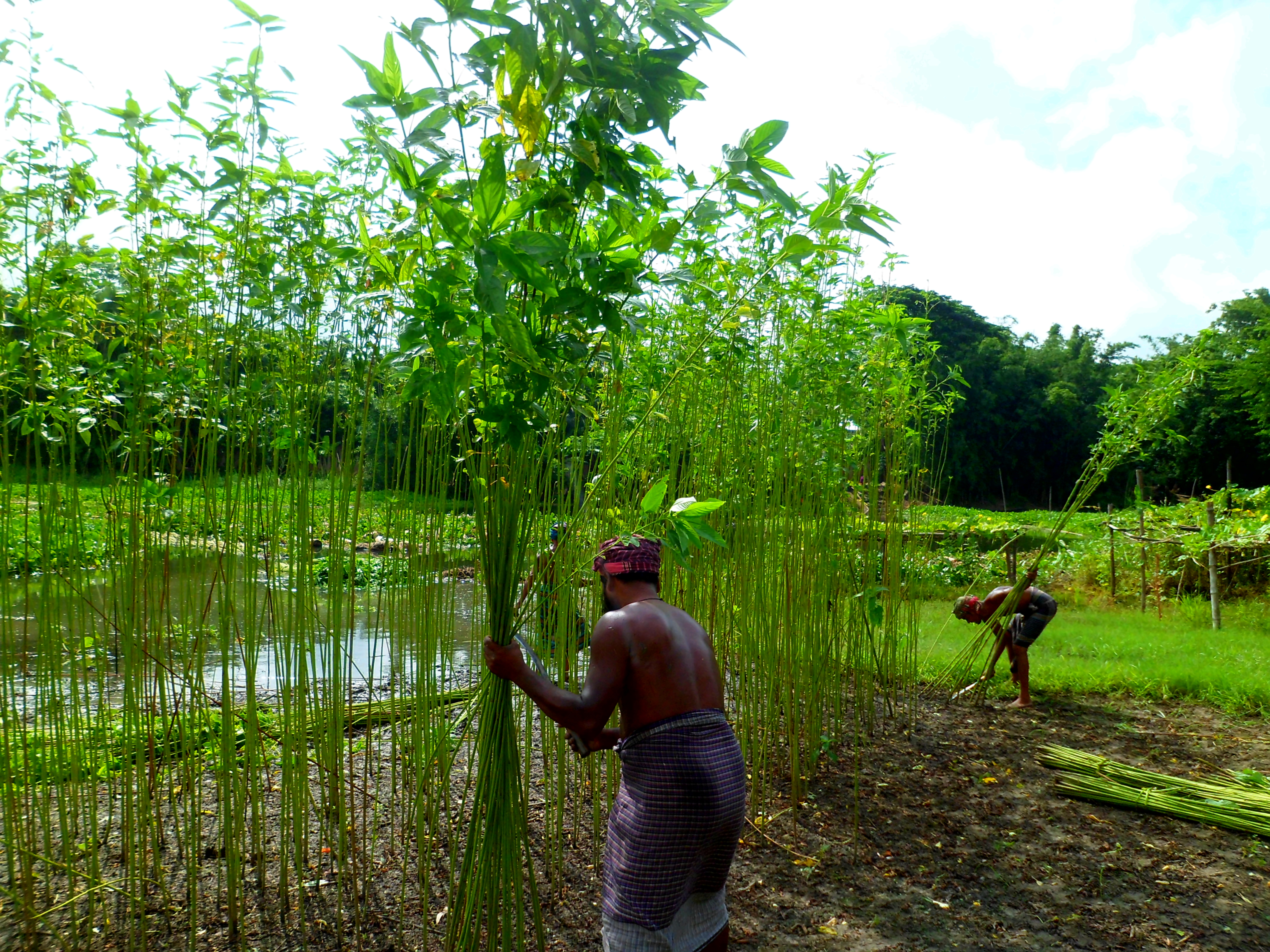 গ্রামবাংলার দৃশ্য